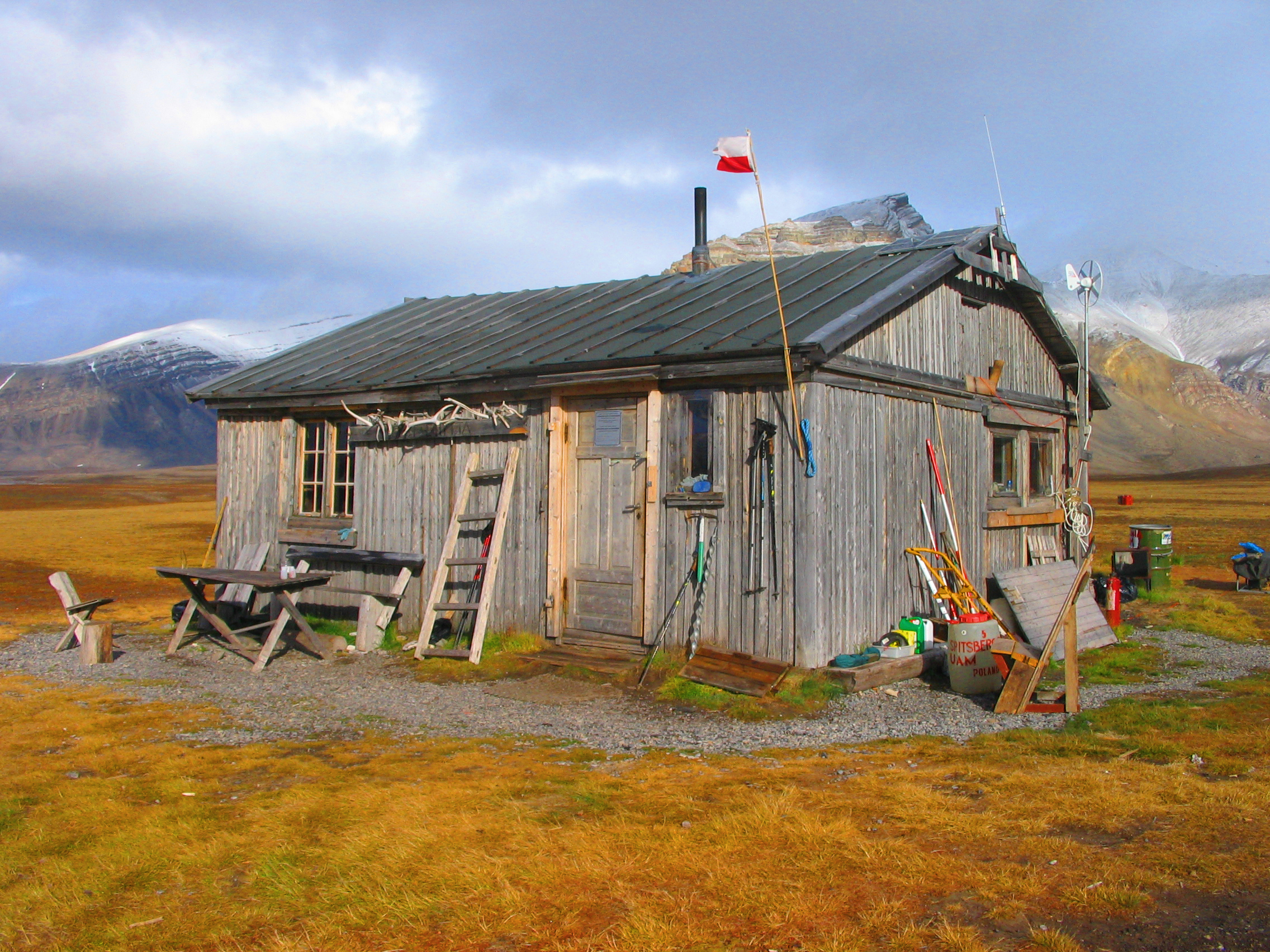 Skottehytta in Petuniabukta bay, Spitsbergen - polar base of Adam Mickiewicz University in Poznań, Poland